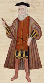 Garcia de Sá, XIV governor of India